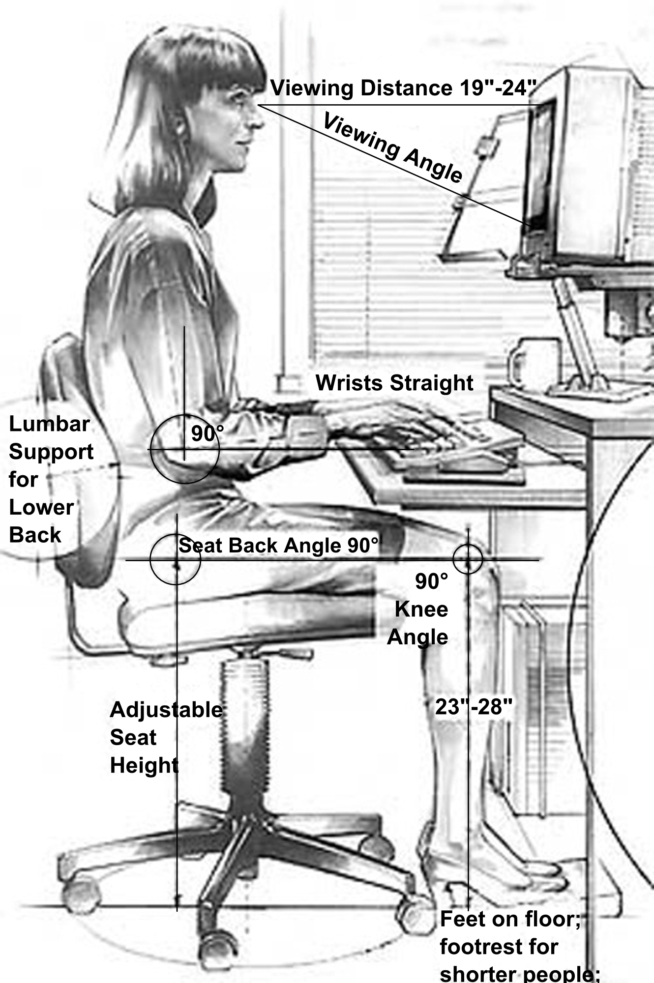 cleanup of File:Computer Workstation Variables.jpg